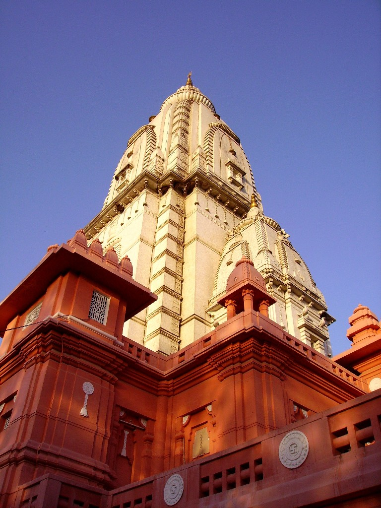 Banaras Hindu University